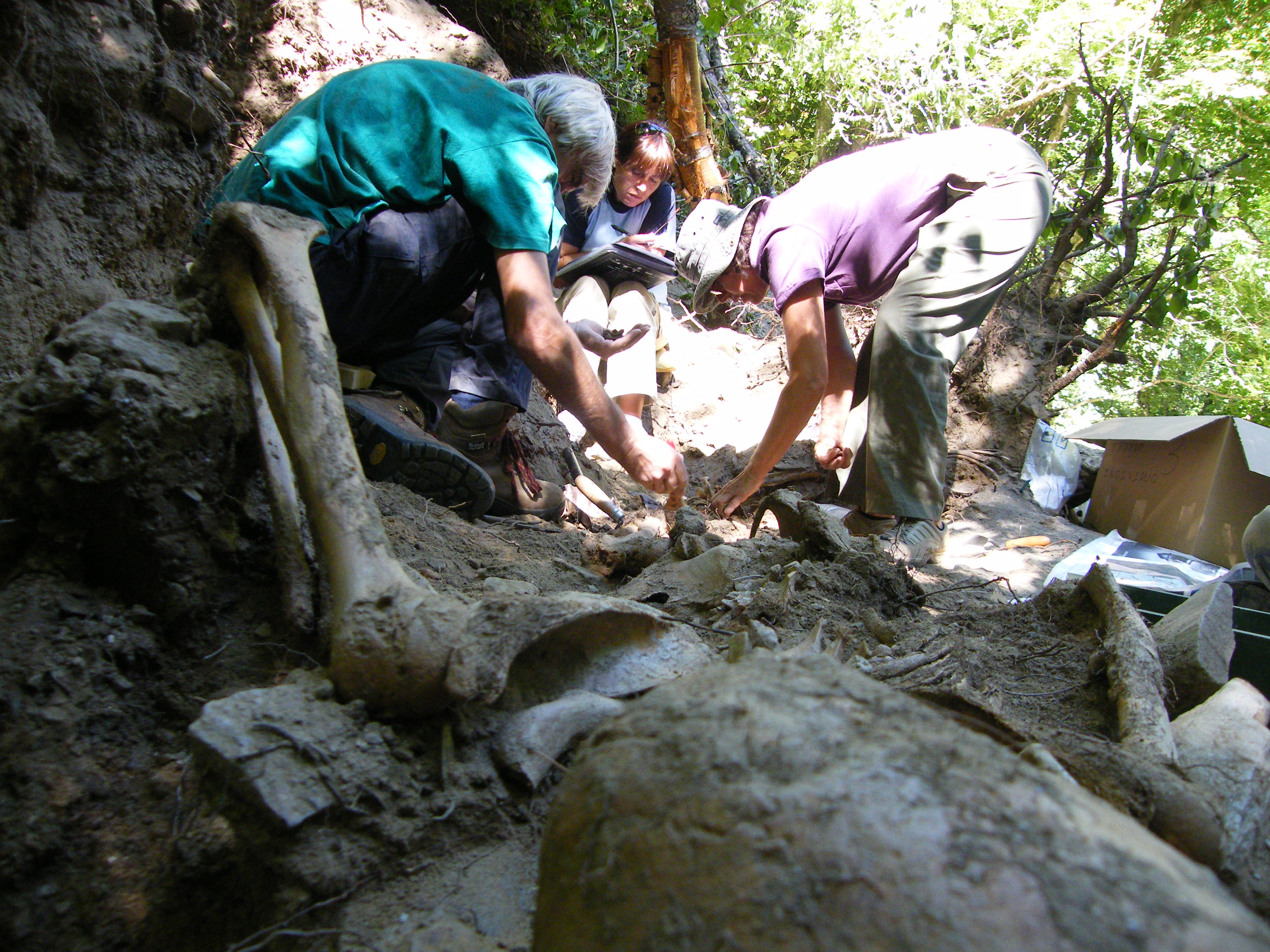 Exhumation, by part of the Association for the Recovery of the Historical Memory (ARMH), of a pit of Spanish Civil War victims.